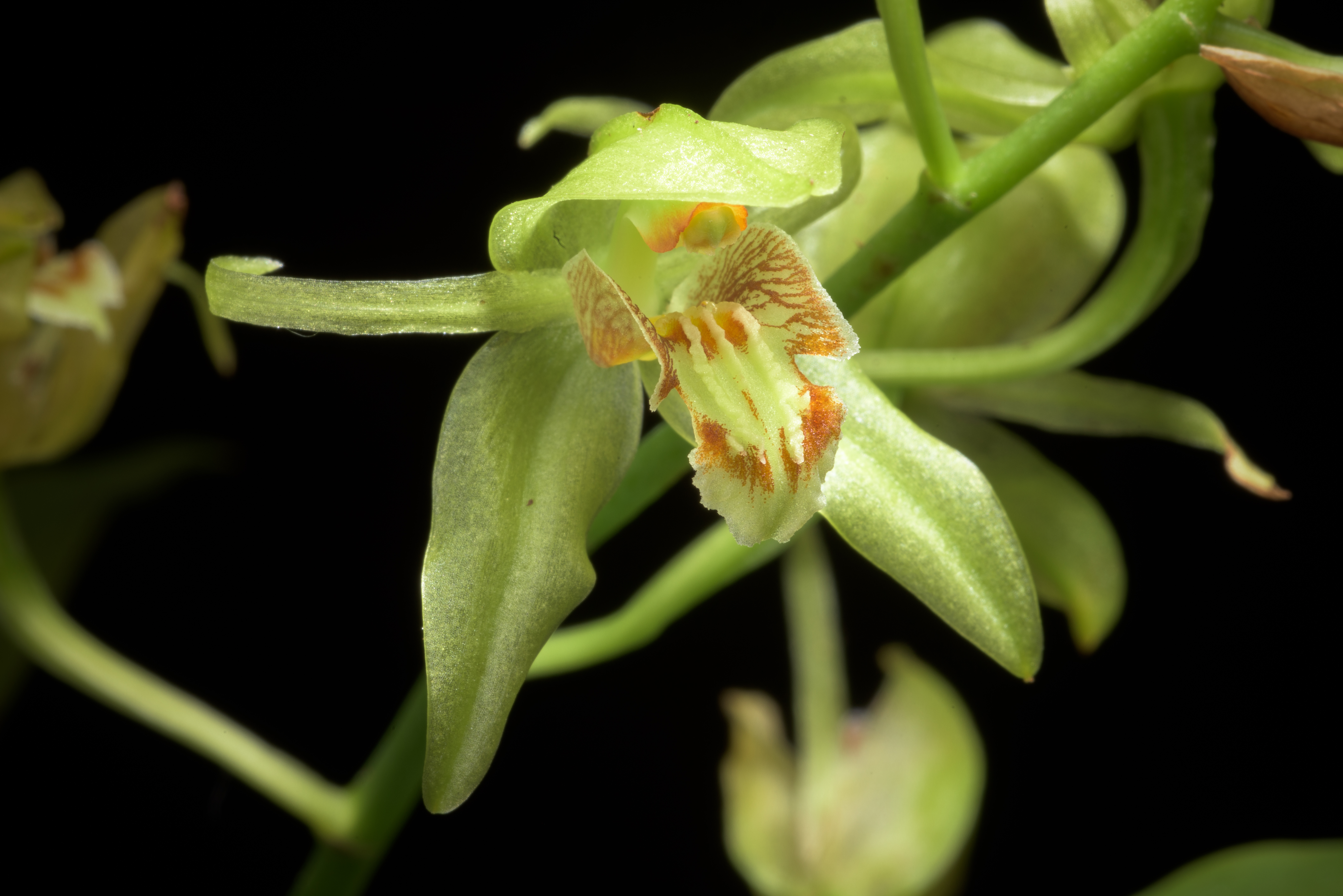 SECTION Lentignosae Distribution: NE. Sulawesi 42 SUL Found in Asia-Tropical Malesia Sulawesi The mountains of Bataan, Benguet, Cagayan, Kalinga-Apayao, the Mountain Province, Nueva Ecija, Nueva Vizcaya, Pampanga, Pangasinan, and Quezon on Luzon; and the island of Mindoro; and Negros. / 1,200m